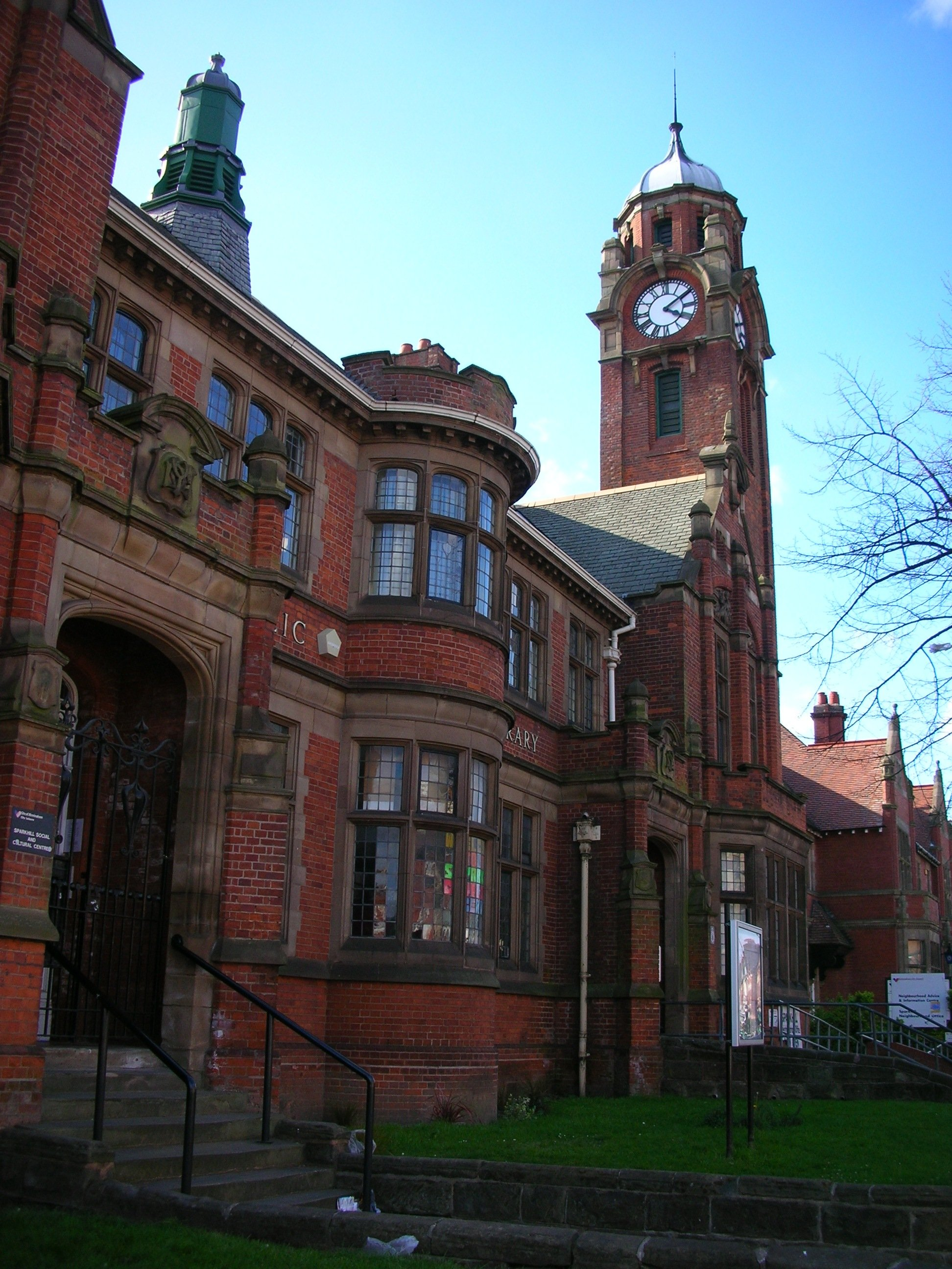 The public library (situated between the public baths and the police station), Sparkhill, Birmingham, England. Photographed by me 8 April 2007. Oosoom